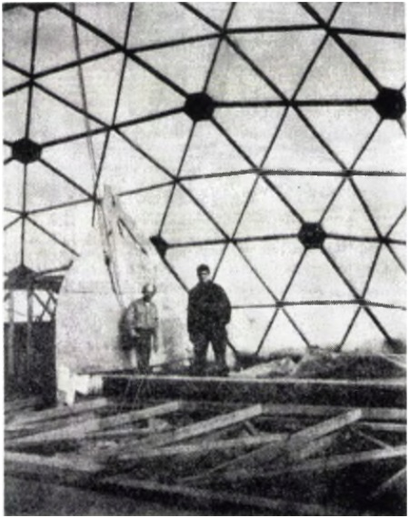 Atlantes under the geodésique dome during the construction of the Atlantis II (1970)